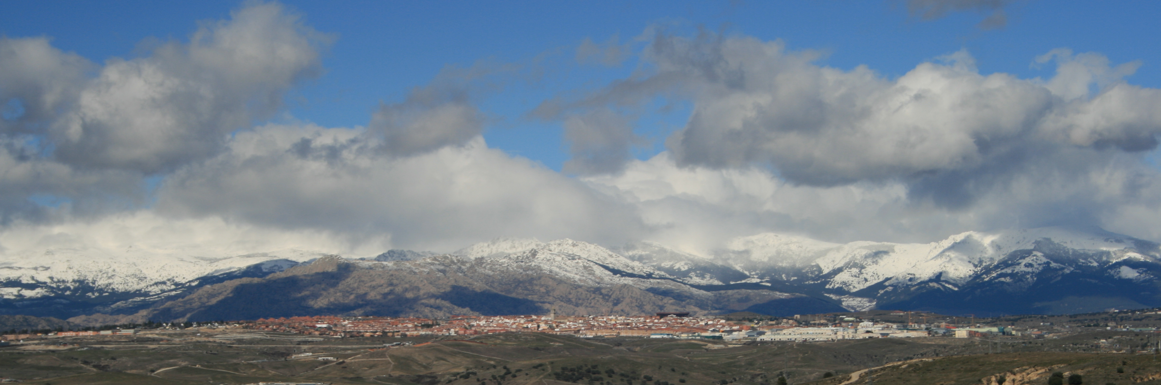 Panoramic of Colmenar Viejo, Madrid, Spain. Panorámica de Colmenar Viejo, Madrid, Spain.